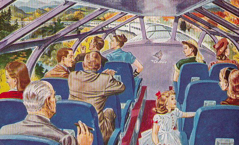 Postcard depiction of the Vista Dome car of the Chessie.